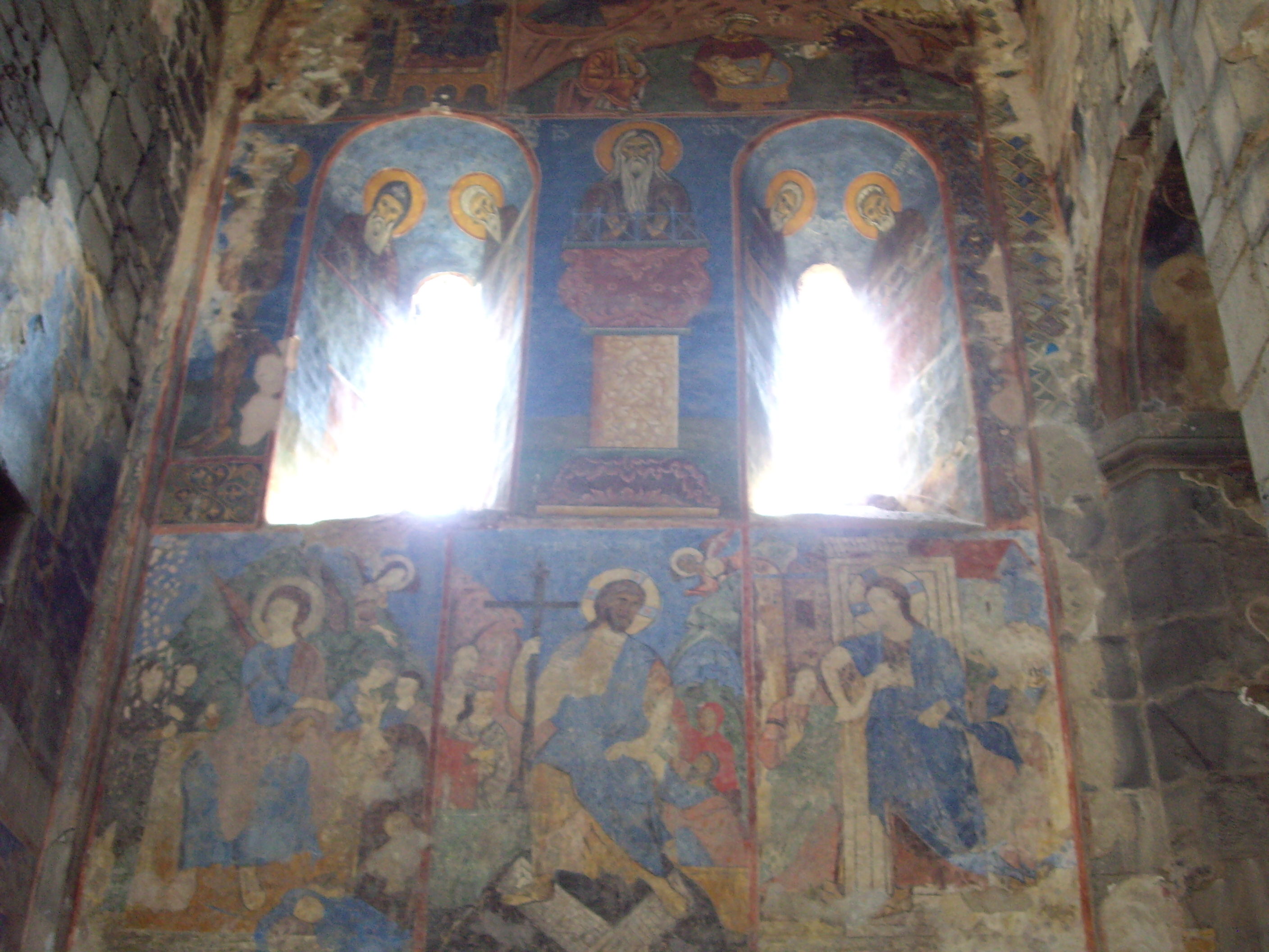 Fragment of murals on the southern wall of the Holy Virgin Church at Akhtala.